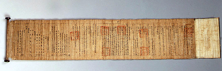 Certificate of Annual Stipend given to Sim Ji-Baek